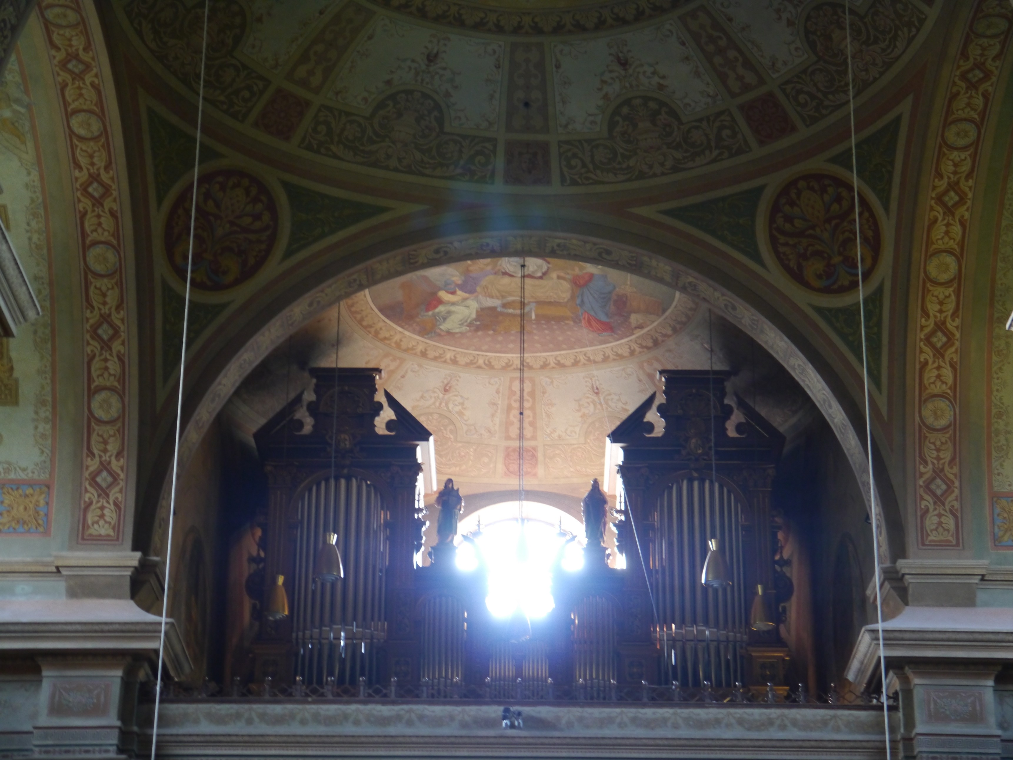 Organ of Maria Puchheim Pilgrimage Basilica, Attnang-Puchheim, Upper Austria